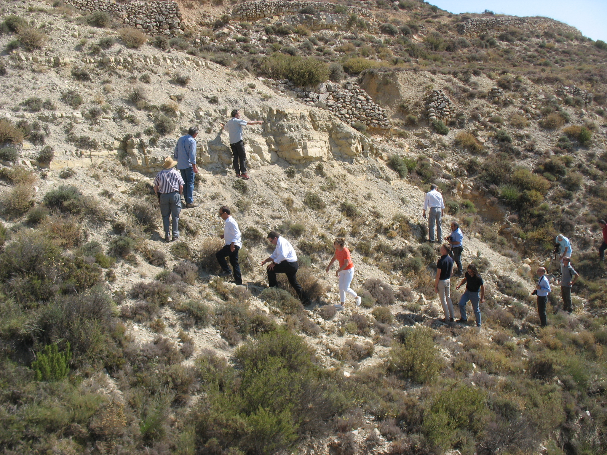 Aalenian GSSP (Lower-Middle Jurassic boundary). Golden spike ceremony: July, 28th 2016. Fuentelsaz, Guadalajara, Spain